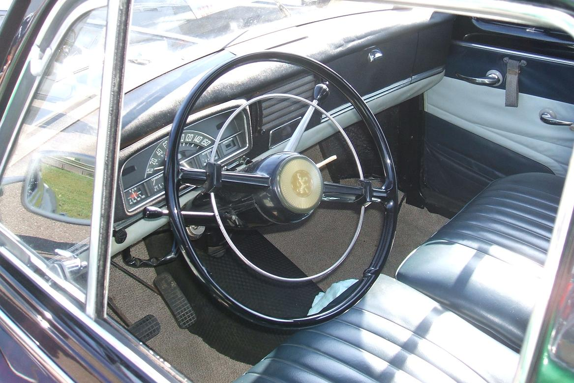 tab 403